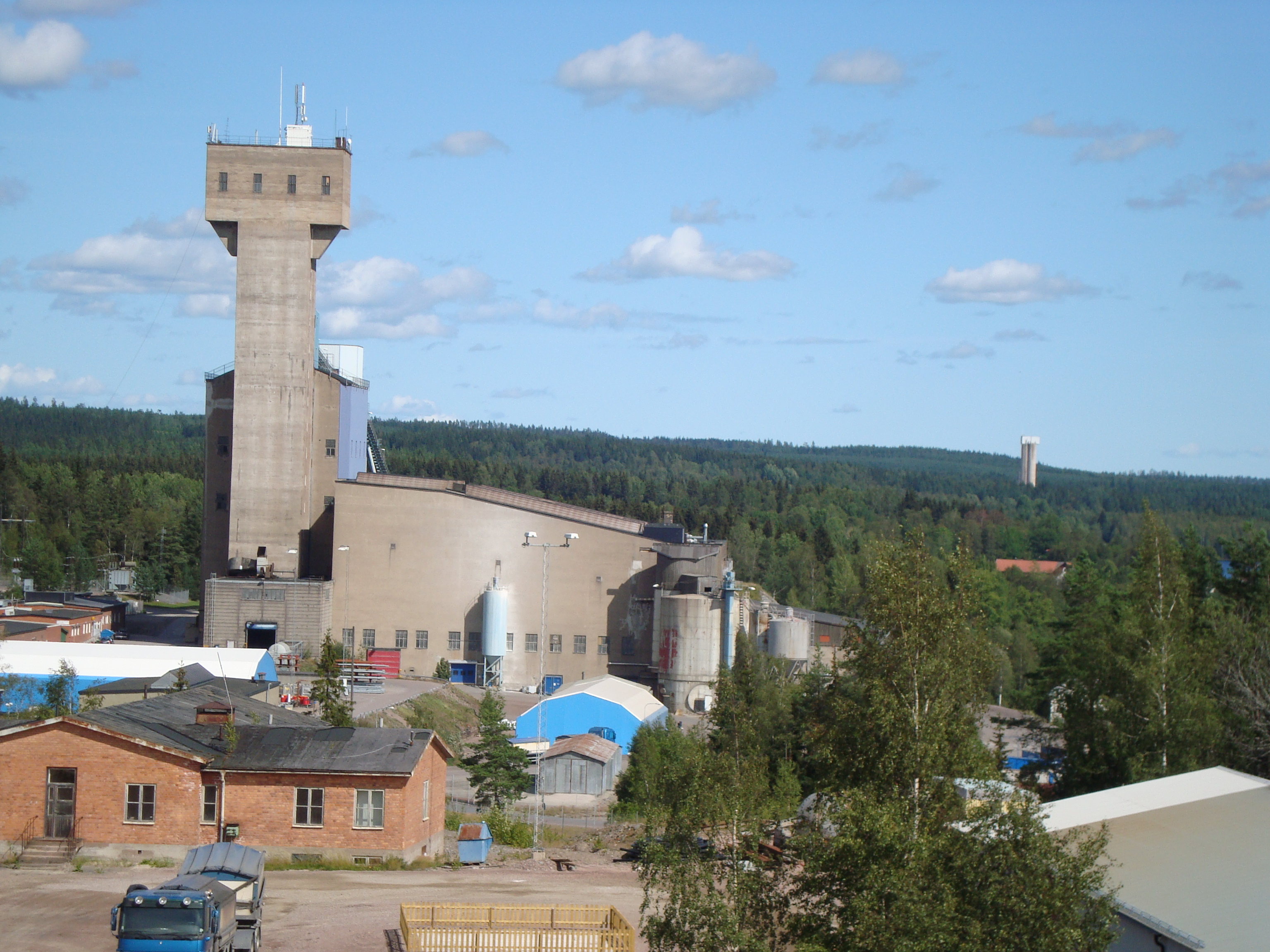 Garpenberg's mine, Sweden